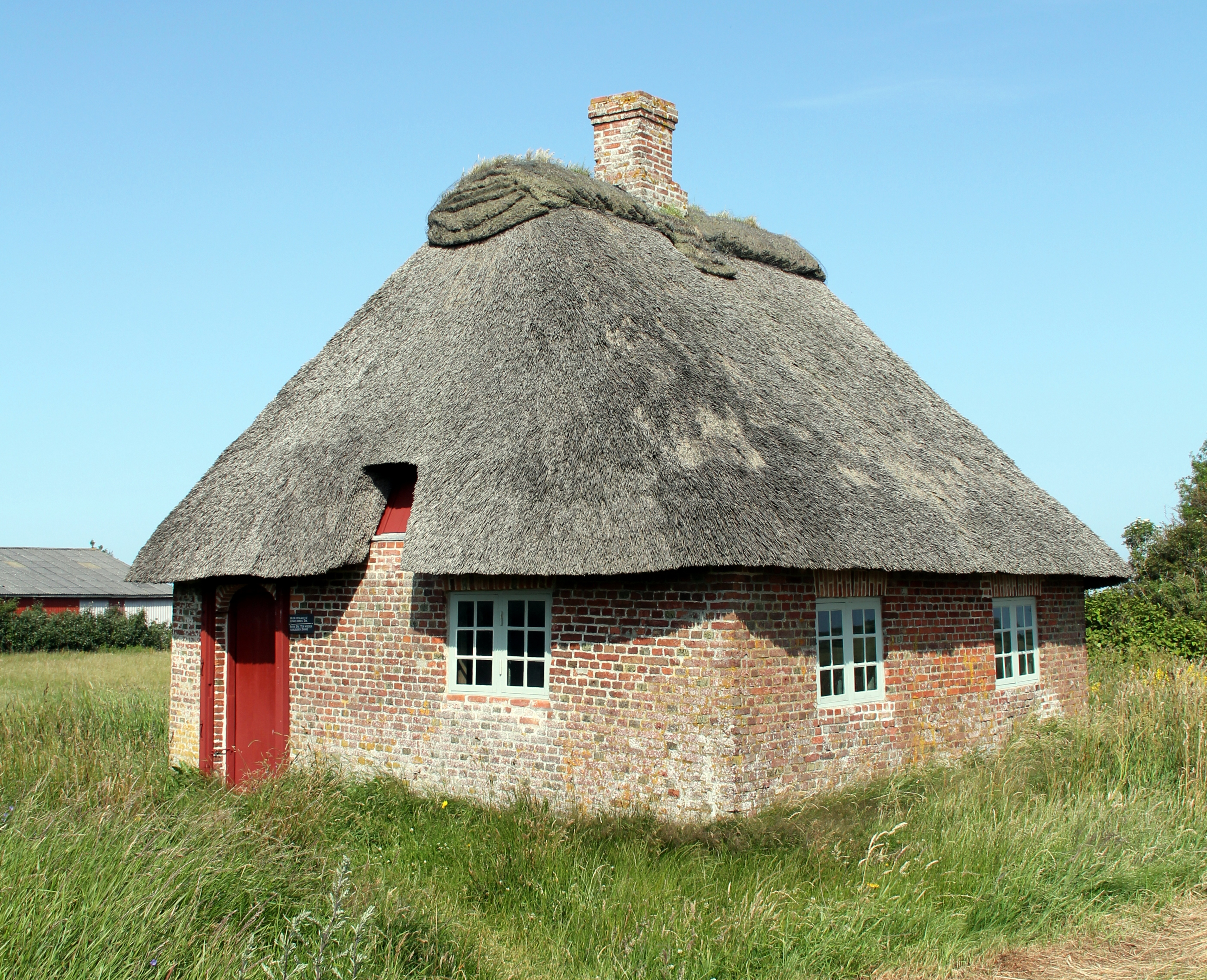 The old school at Rømø